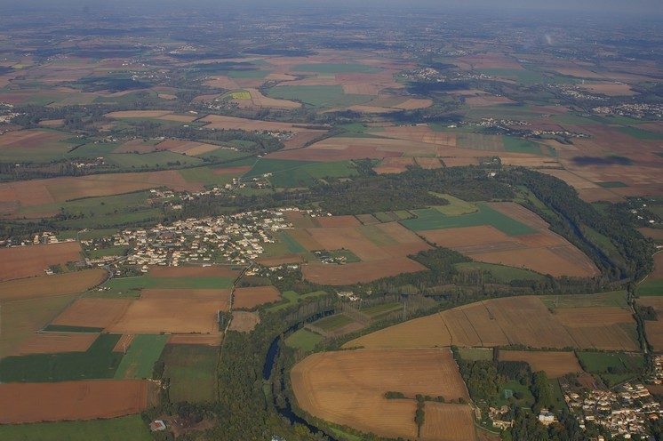 Sciecq in order to loop the Sèvre Niortaise